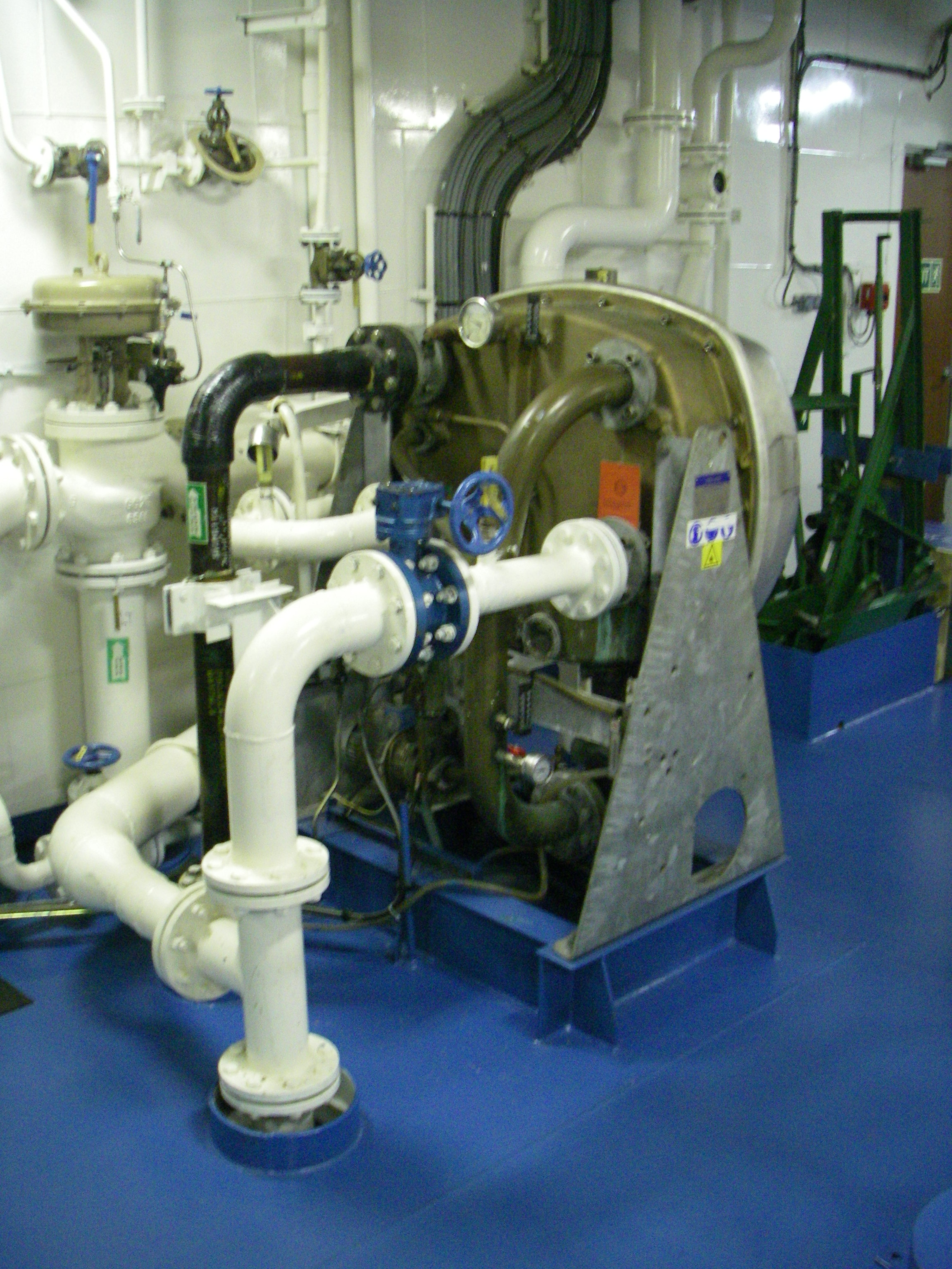 A fresh water generator on board a ship.